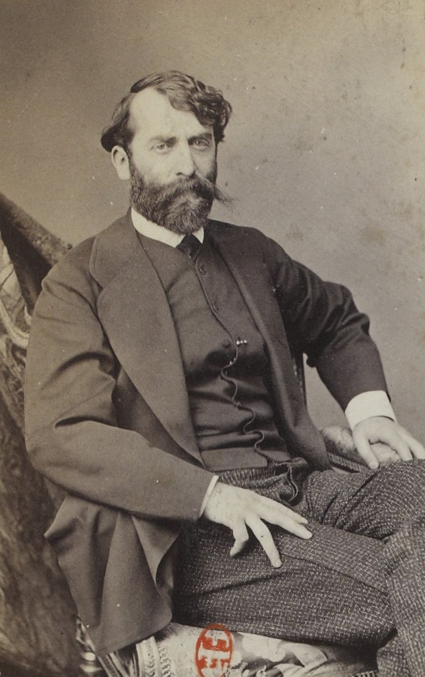 Portrait of Ferdinand Heilbuth